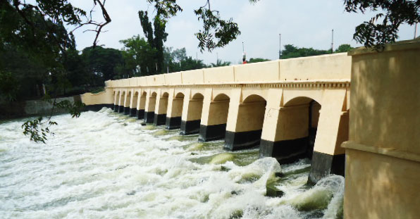 NidamangalamThalappu